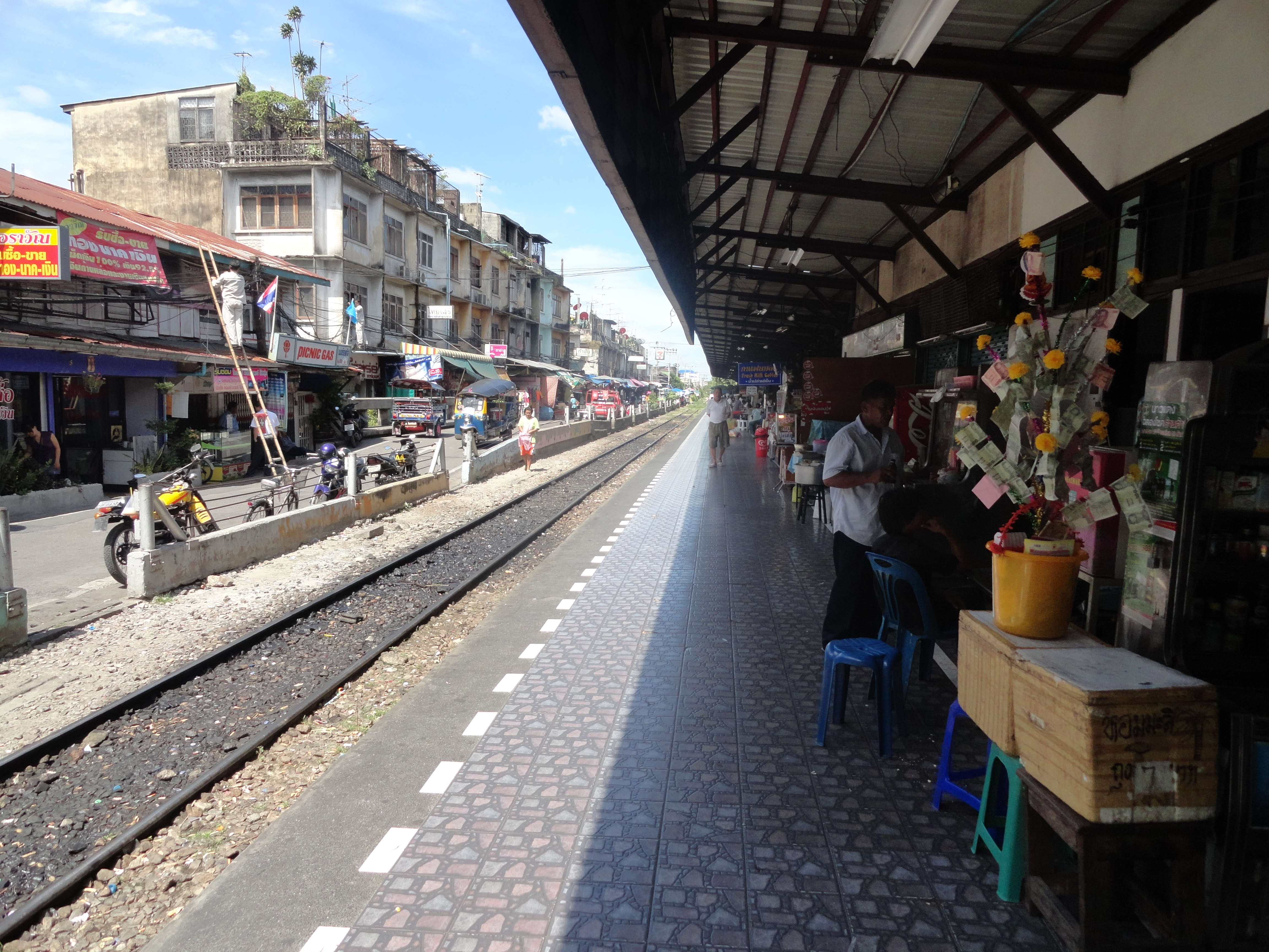 Wongwian Yai Railway Station, in Thonburi side of Bangkok. This is the departure station of the Maeklong Railway in Thailand.